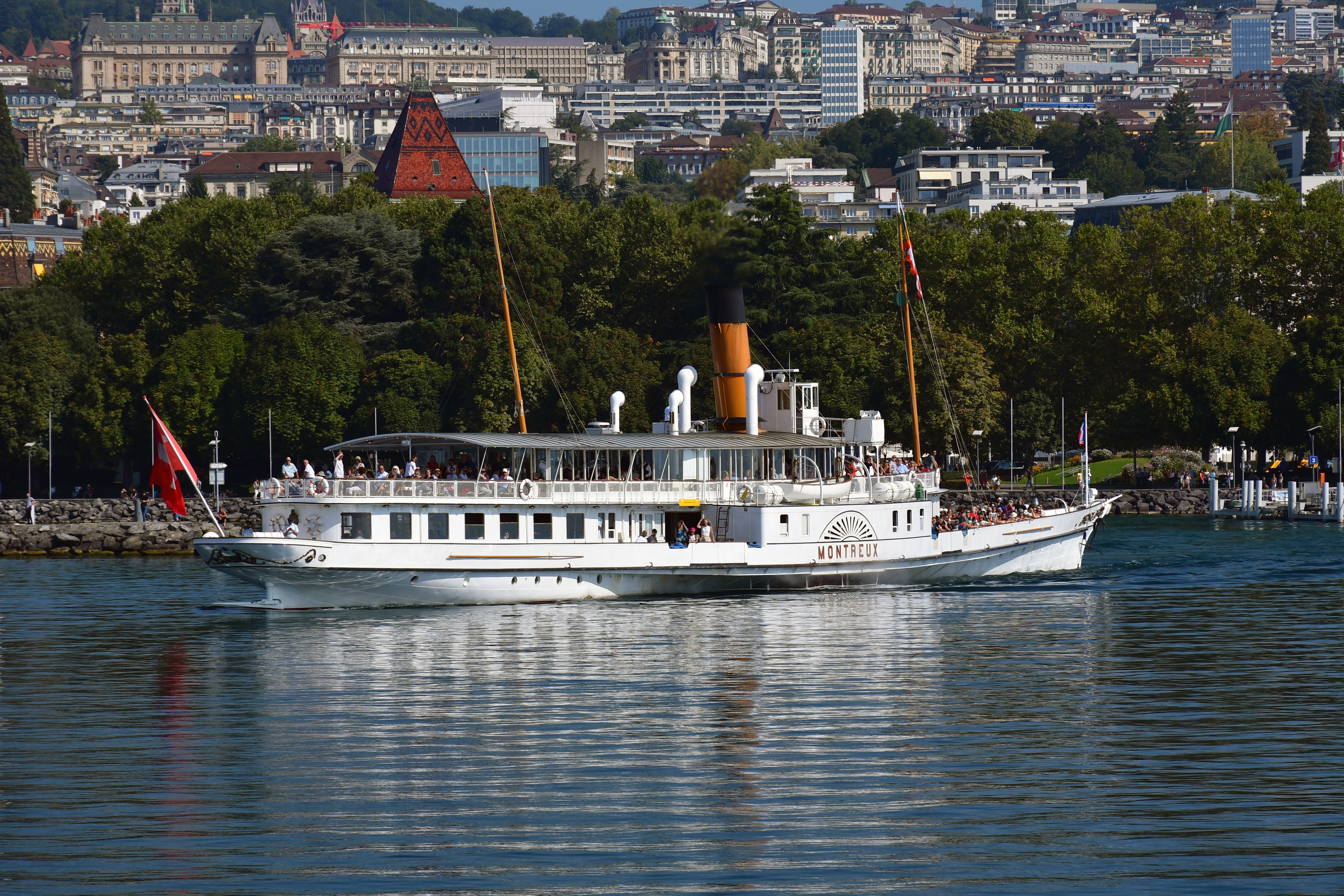 The steamship Montreux, owned by the Lake Geneva General Navigation Company, at Ouchy, in Lausanne (Switzerland).